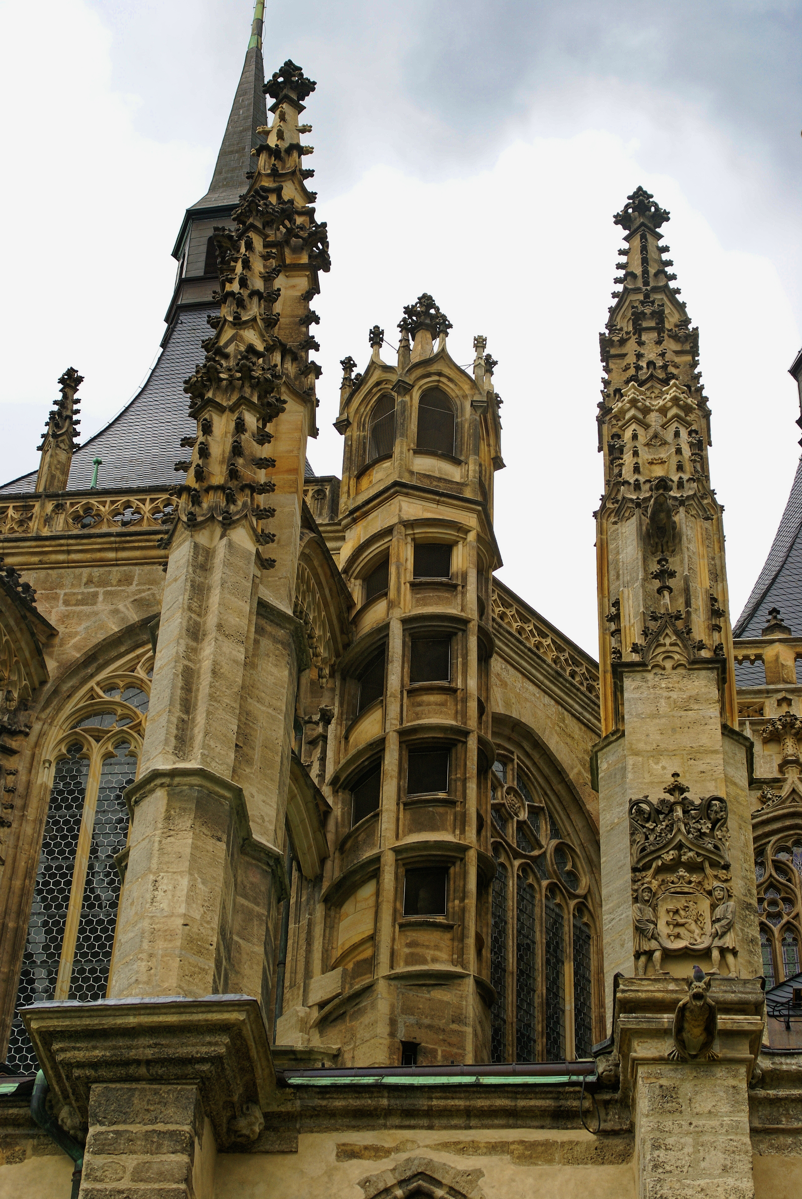 Kutná Hora - View North on Gothic spiral staircase